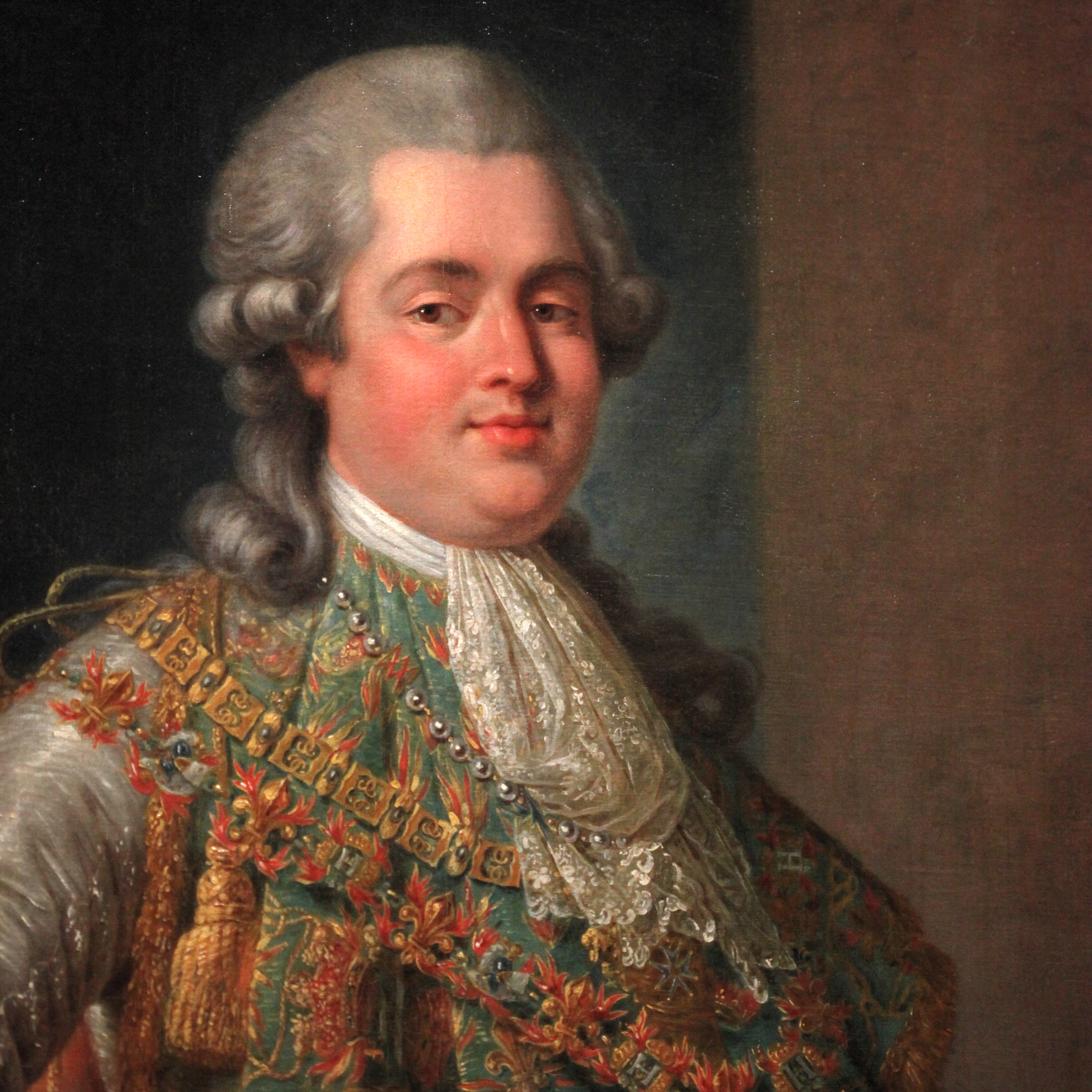 Louis Stanislas Xavier, Count of Provence, by Antoine-François Callet. Oil on painting, 1788. Lent by Grenoble Fine Arts museum. On display at Château de Vizille. Musée de la Révolution française Native nameMusée de la Révolution françaiseLocationVizilleCoordinates45° 04′ 32″ N, 5° 46′ 23″ E Established1983Web page control : Q2389498 VIAF: 141488728 ISNI: 0000 0001 2324 3759 ULAN: 500312690 LCCN: n85154456 GND: 1211686-5 WorldCat institution QS:P195,Q2389498